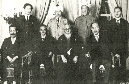 Front row, from left, nationalist Ryōzō Ioki, future Prime Minister Tsuyoshi Inukai, nationalist Mitsuru Tōyama, Rep. Kazuo Kojima.